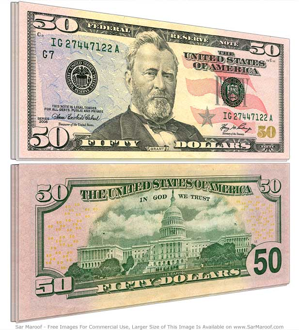 US 50 Dollar Bills